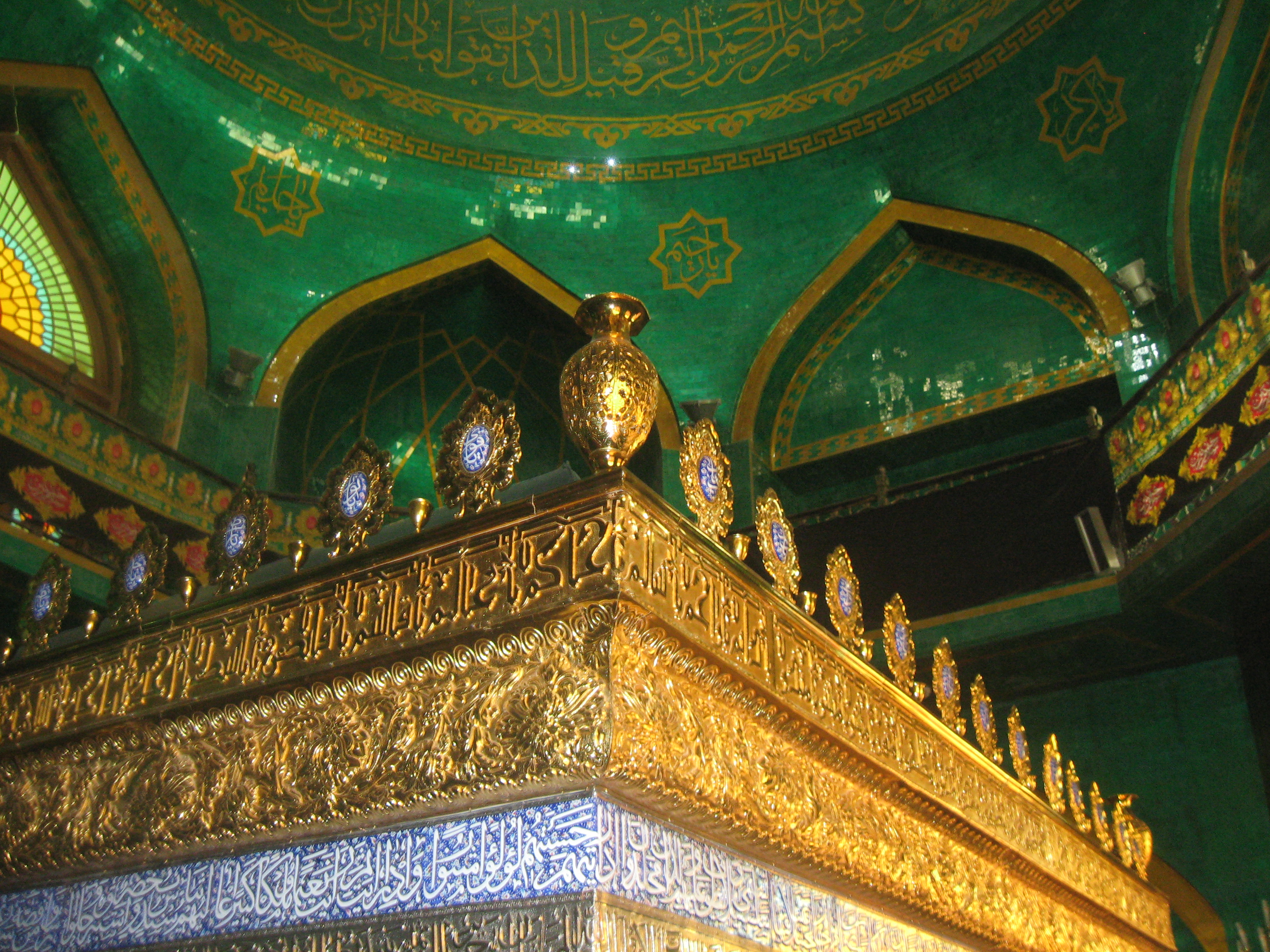 Inside of Bibi-Eybat mosque